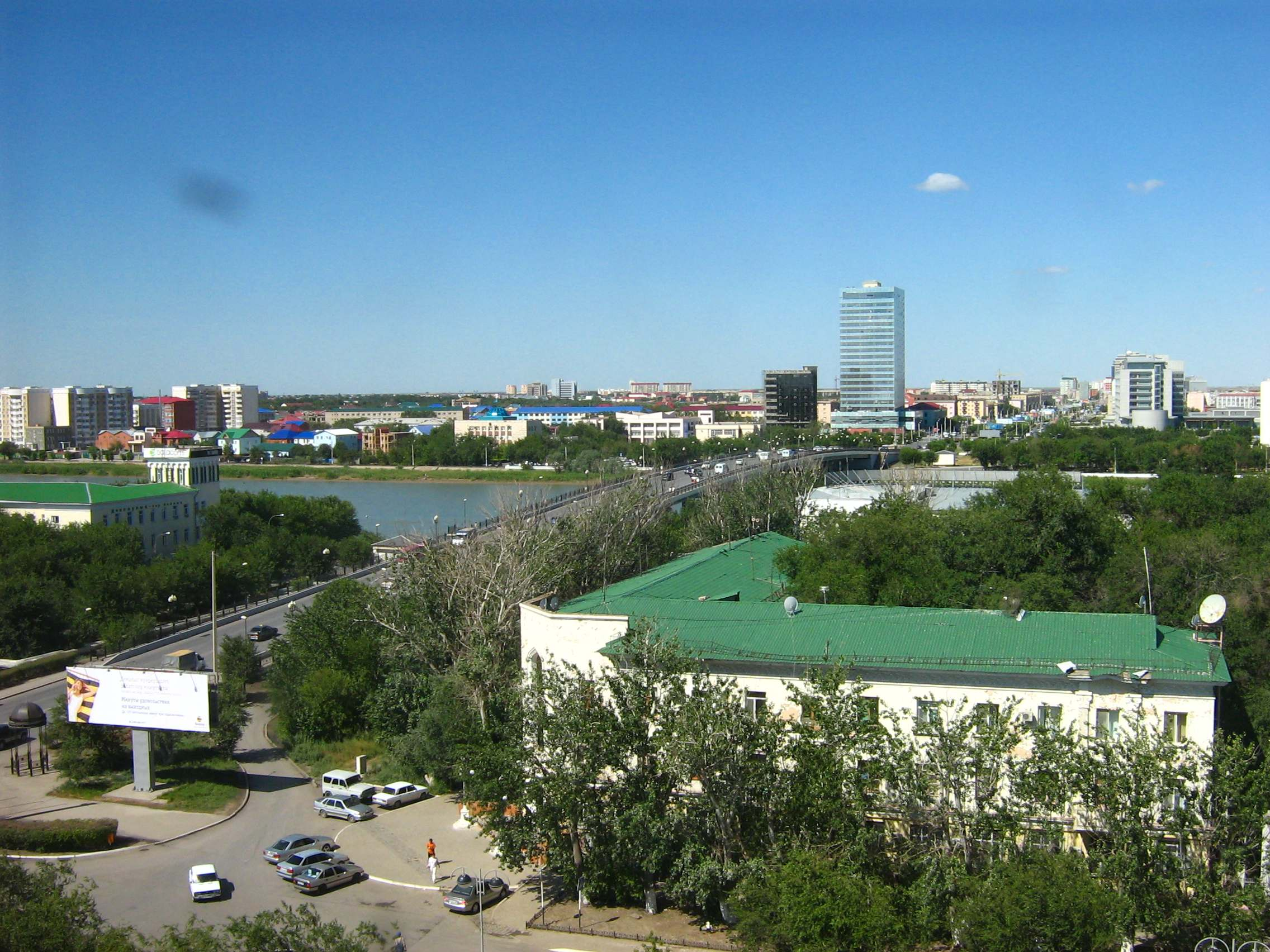 The Center of Atyrau, Kazakhstan. Bridge between Europe and Asia